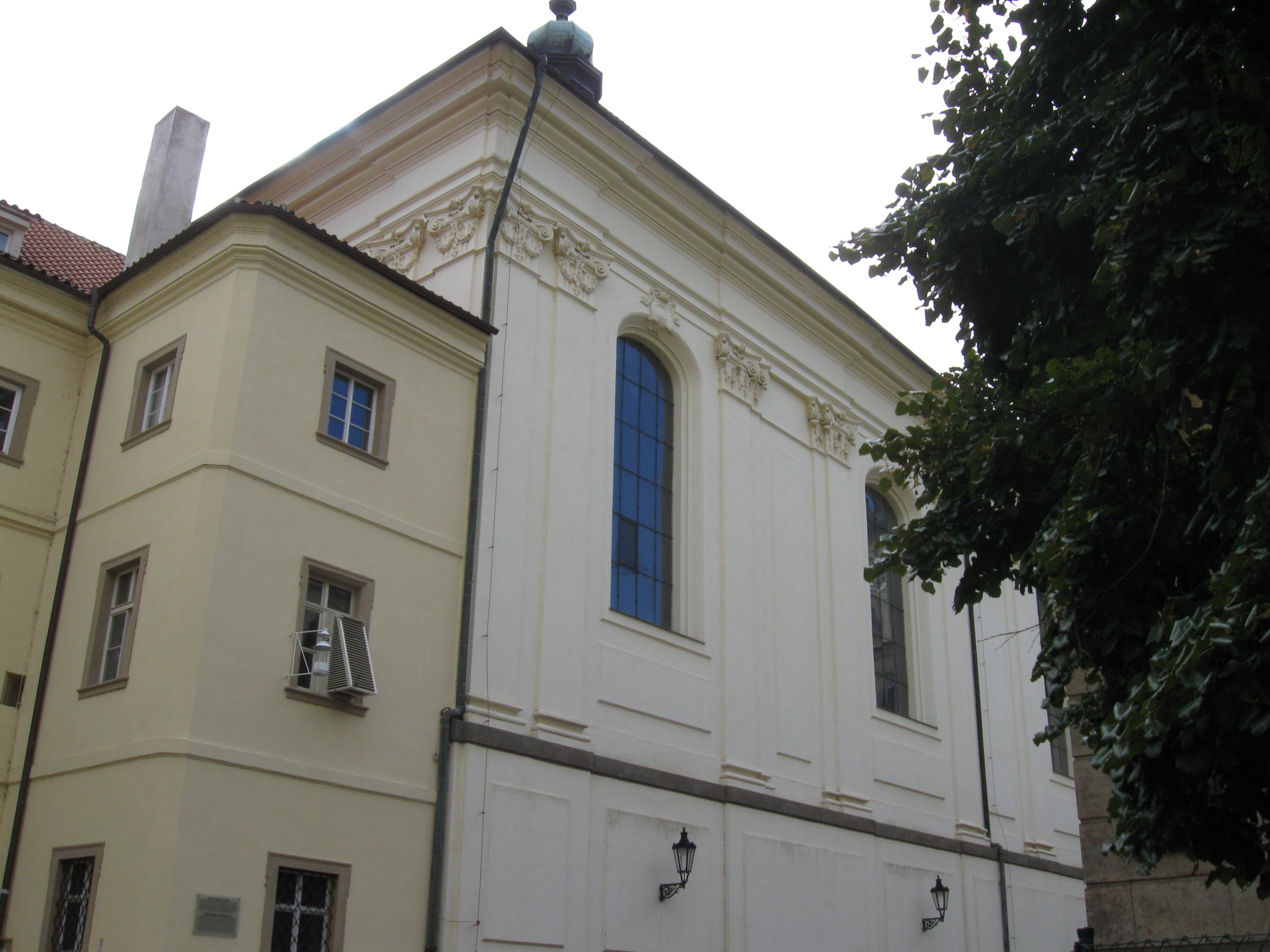 Klementinum, Prague